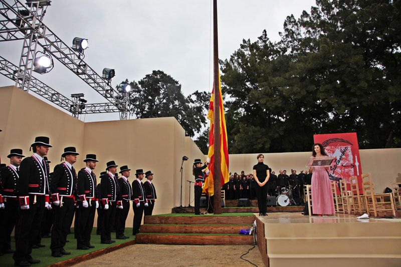 2013 Institutional event of the National Day of Catalonia - Senyera